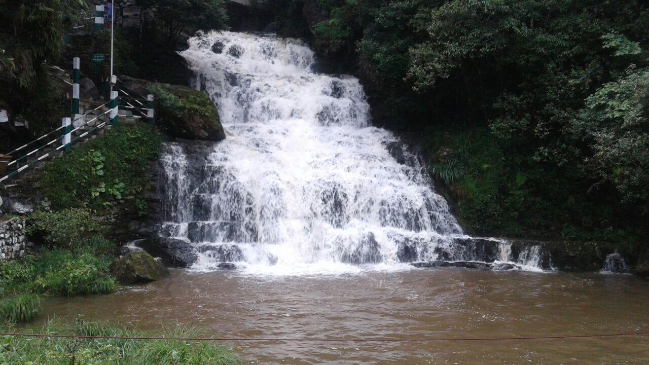 Elephant Falls was the British name of what the local Khasi people once referred to as Ka Kshaid Lai Pateng Khohsiew (or "Three Steps Waterfalls") since the falls actually consisted of three sections in succession.